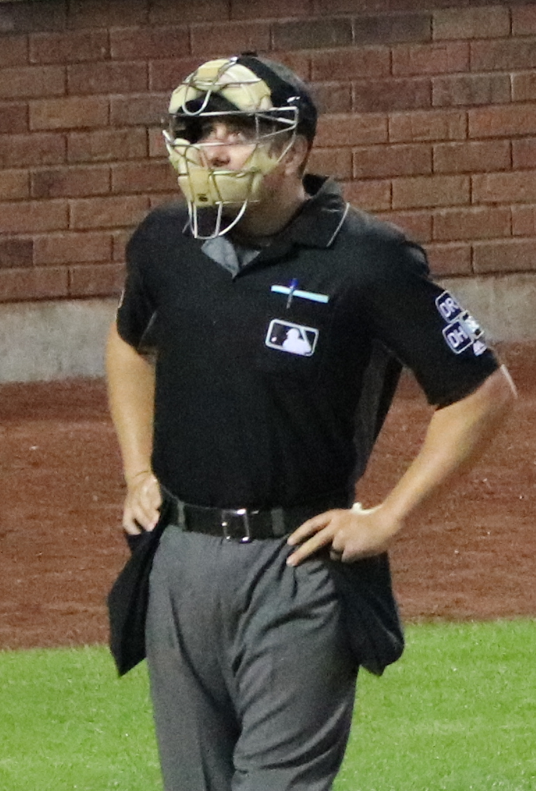 Matt Wieters catches on July 13, 2018